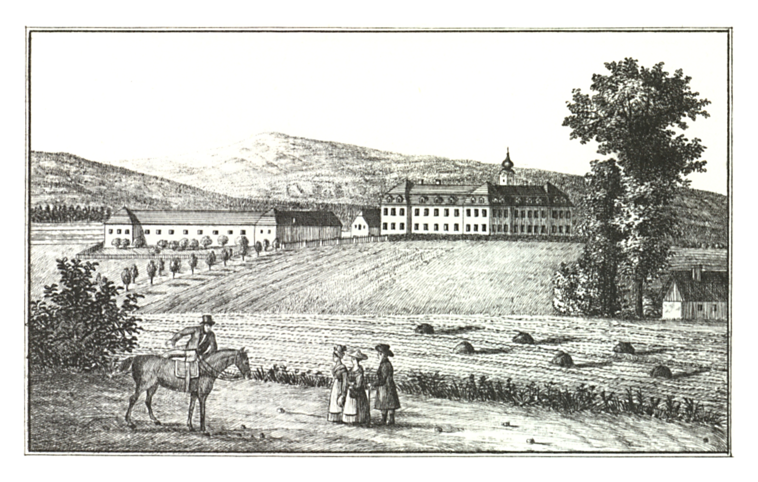 J. F. Kaiser - lithographirte Ansichten der Steyermärkischen Städte, Märkte und Schlösser Joseph Franz Kaiser (1786–1859) Alternative names J. F. KaiserDescriptionAustrian printer and editorDate of birth/death 11 March 1786 19 September 1859Location of birth/death Graz (Styria) GrazAuthority control : Q1499963 VIAF: 30629353 ISNI: 0000 0000 3083 0153 LCCN: n87141671 GND: 129880159 NLP: A24960305 WorldCat creator QS:P170,Q1499963 Graz, 1825 Scanprojekt Community Projektbudget 2012 This scan or this PDF-file was created within the GLAM-project Bookscanning, supported by Wikimedia Germany and Wikimedia Austria as a part of the community-project to capture books, documents and pictures which are not eligible to copyright or for which the copyright has expired. This document describes or depicts an object which is located in Austria today. Send requests for uncompressed scans to Hubertl. This work is in the public domain in its country of origin and other countries and areas where the copyright term is the author's life plus 100 years or less. You must also include a United States public domain tag to indicate why this work is in the public domain in the United States. This file has been identified as being free of known restrictions under copyright law, including all related and neighboring rights.